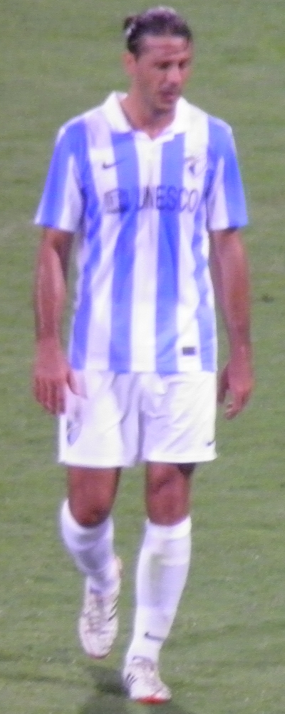 Martín Demichelis during the friendly match Juventus-Málaga played in Salerno